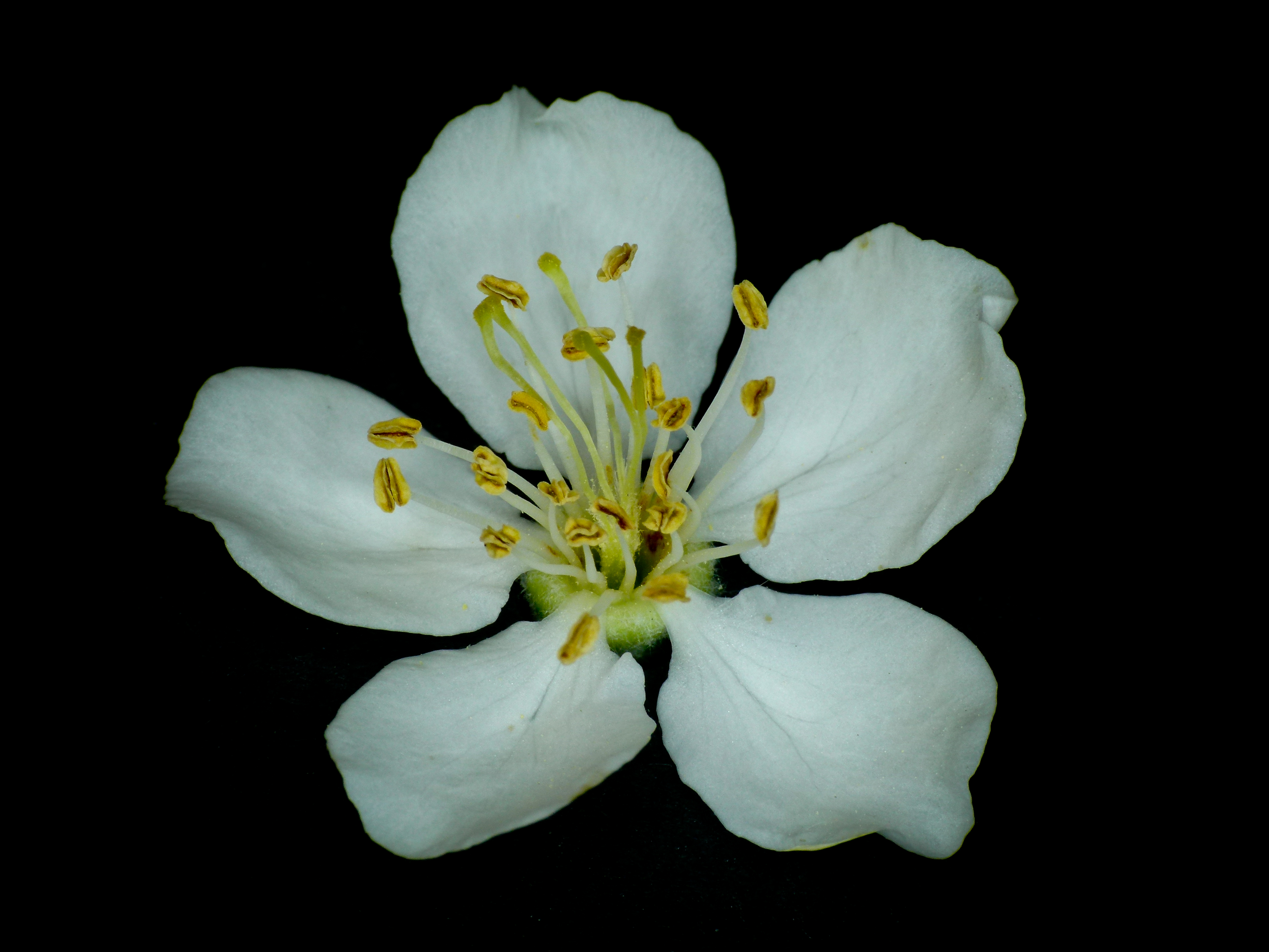 Blossom of Malus florentina - Florentine crabapple - hawthorn-leaf crabapple